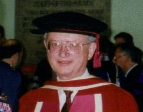 Professor Hugh E. Conway at the Industrial College of the Armed Force graduation ceremony in 1995